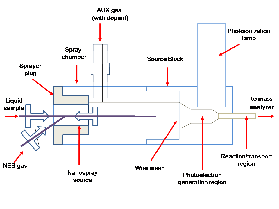 Image is similar to the image in this source Analytical Chemistry 2012 84 (9), 4221-4226